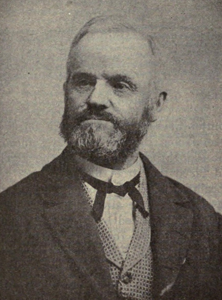 Portrait of John Humphrey Noyes